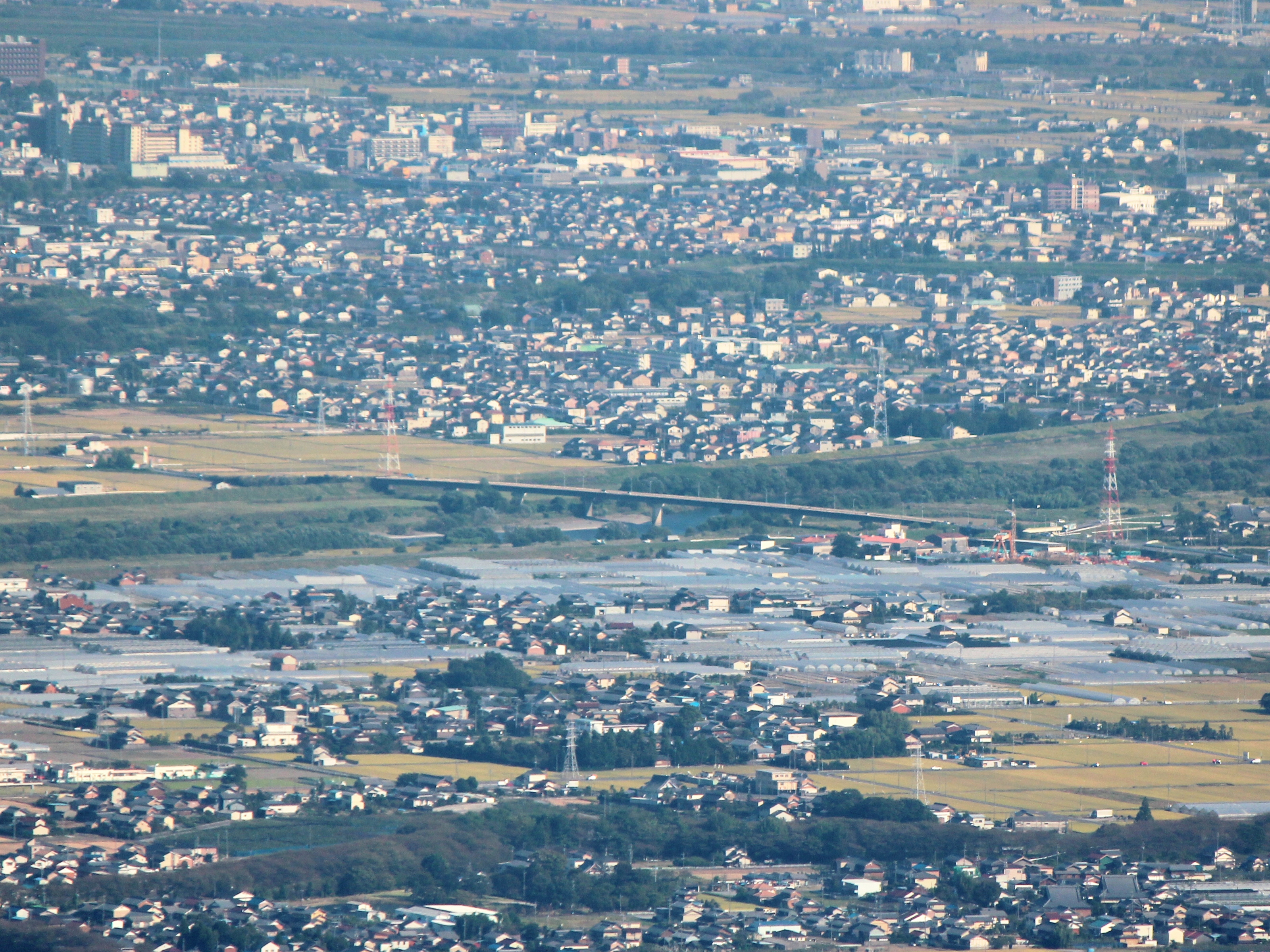 Sakida Bridge over Ibi River seen from Mount Ikeda in Mizuho, Gifu prefecture, Japan.